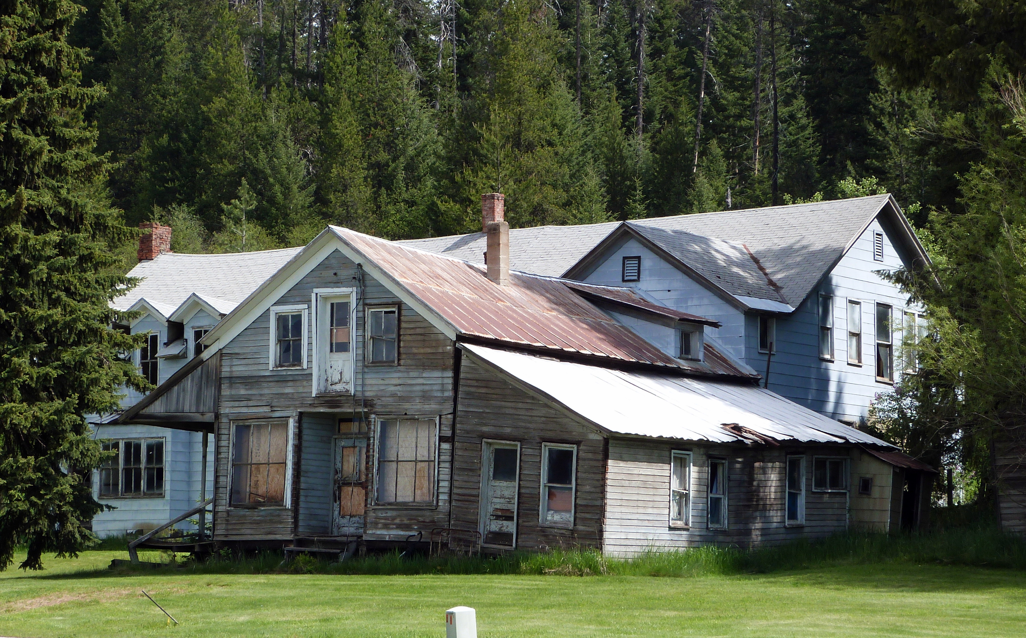 The historic Hotel Bovill (built 1901, modified and expanded through 1911), located at 602 Park Street in Bovill, Idaho, United States, is listed on the US National Register of Historic Places.